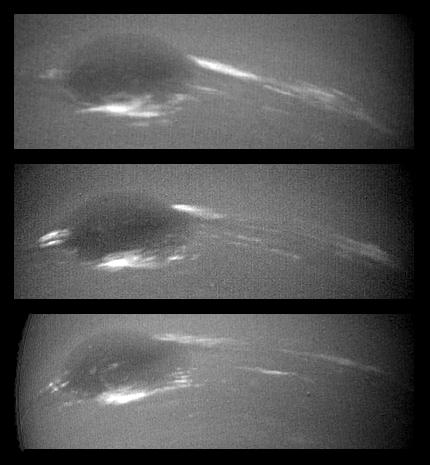 The bright cirrus-like clouds of Neptune change rapidly, often forming and dissipating over periods of several to tens of hours. In this sequence spanning two rotations of Neptune (about 36 hours) Voyager 2 observed cloud evolution in the region around the Great Dark Spot (GDS) at an effective resolution of about 100 kilometers (62 miles) per pixel. The surprisingly rapid changes which occur over the 18 hours separating each panel shows that in this region Neptune's weather is perhaps as dynamic and variable as that of the Earth. However, the scale is immense by our standards the Earth and the GDS are of similar size and in Neptune's frigid atmosphere, where temperatures are as low as 55 degrees Kelvin (360 F), the cirrus clouds are composed of frozen methane rather than Earth's crystals of water ice.